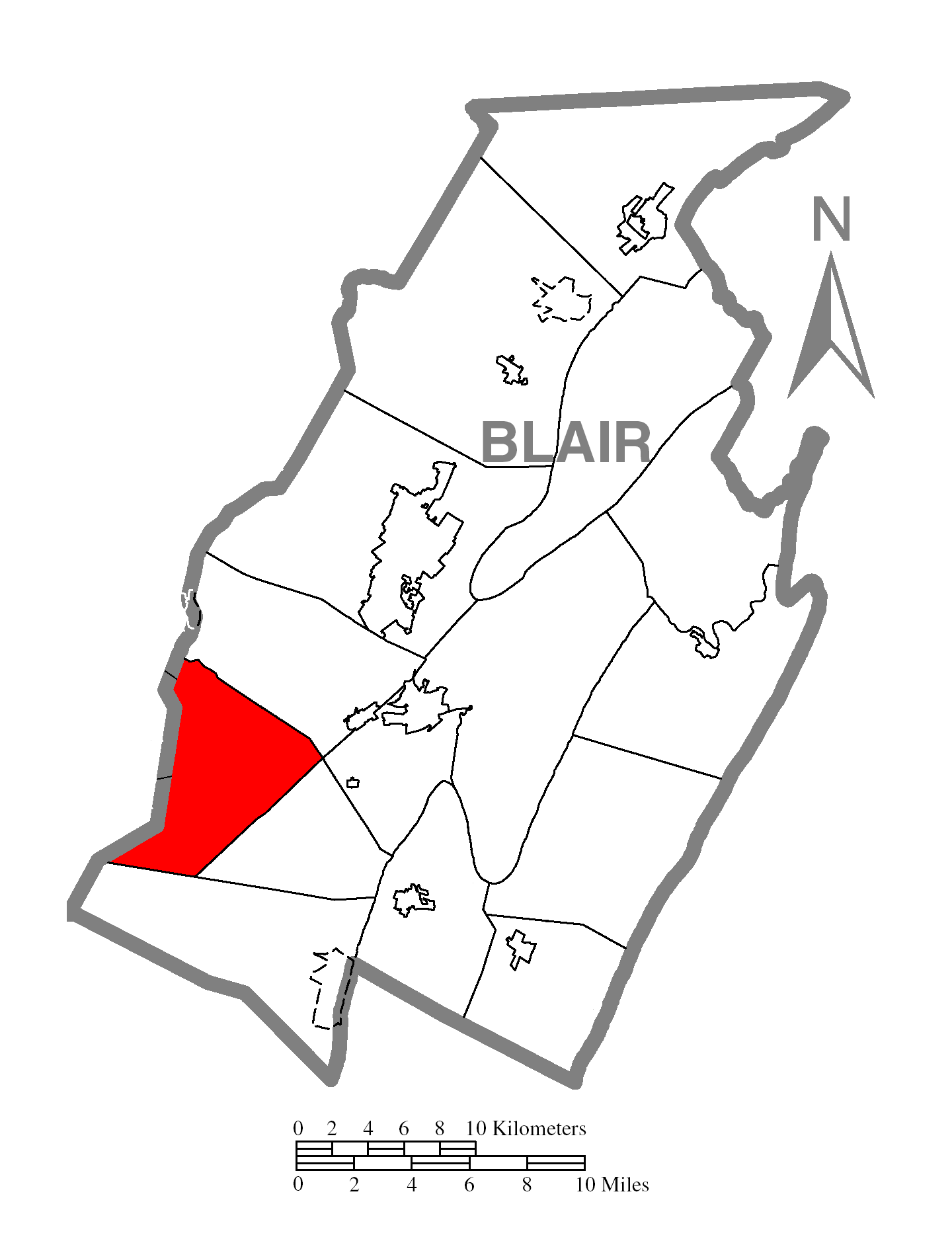 A map of Blair County showing Juniata Township, Pennsylvania (alternate) highlighted on the map.